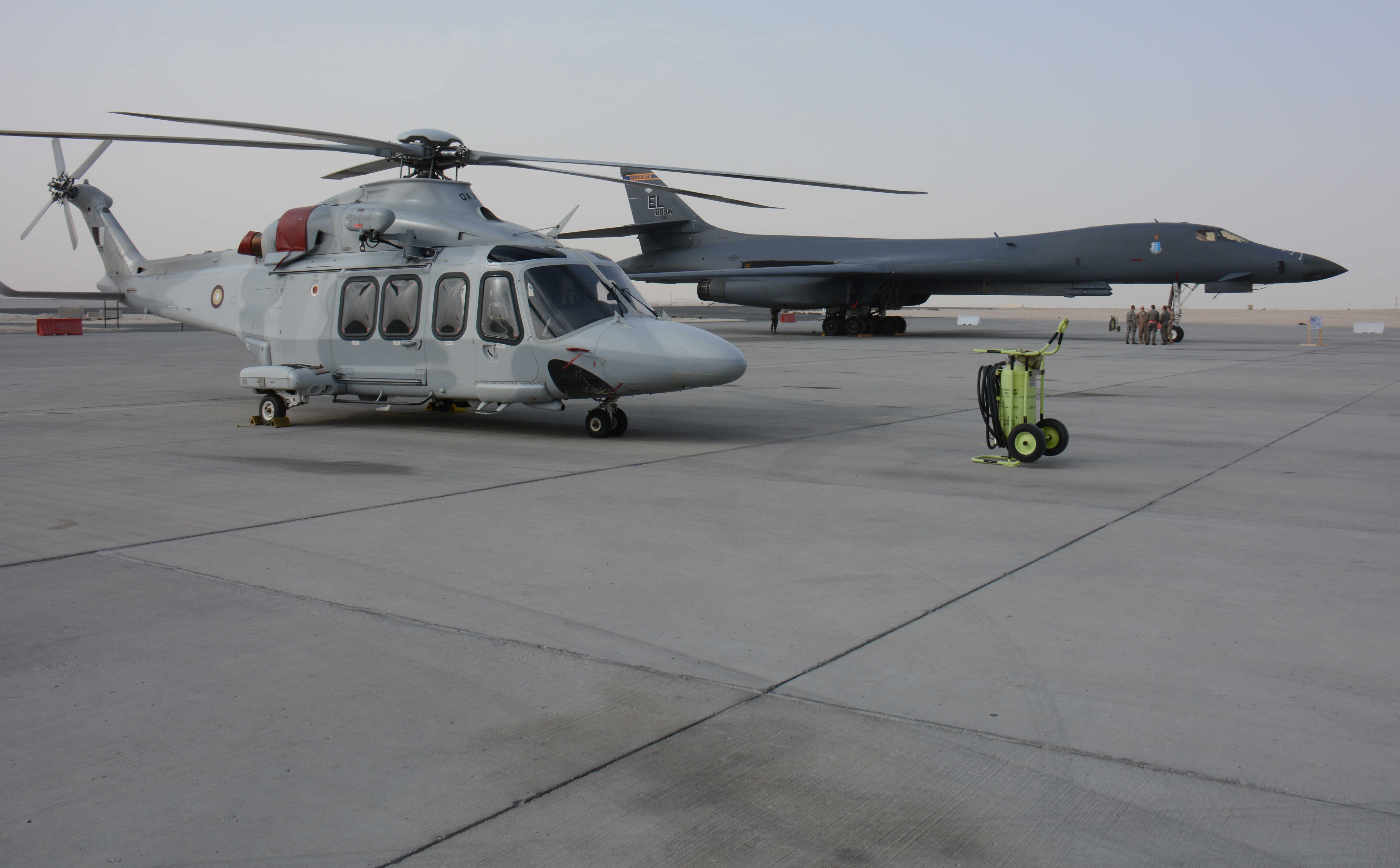 A Qatar Emiri Air Force helicopter and a U.S. Air Force B-1B Lancer wait for visitors at the annual Flight Line Fest Jan. 10 at Al Udeid Air Base, Qatar. The aircraft joined seven other USAF and QEAF airframes in the event, along with a display of emergency vehicles. Flight Line Fest is a joint partnership between the 379th Air Expeditionary Wing and QEAF to foster relations between Qatar and the United States. (U.S. Air Force photo by Tech. Sgt. James Hodgman/Released) Unit: 379th Air Expeditionary Wing